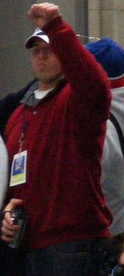 David Diehl at the Giants parade in Manhattan the Tuesday following the Giants victory in Super Bowl XLII.